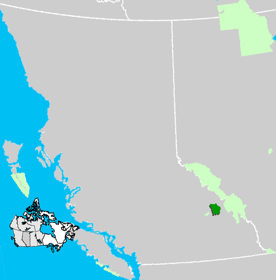 Location of Glacier National Park